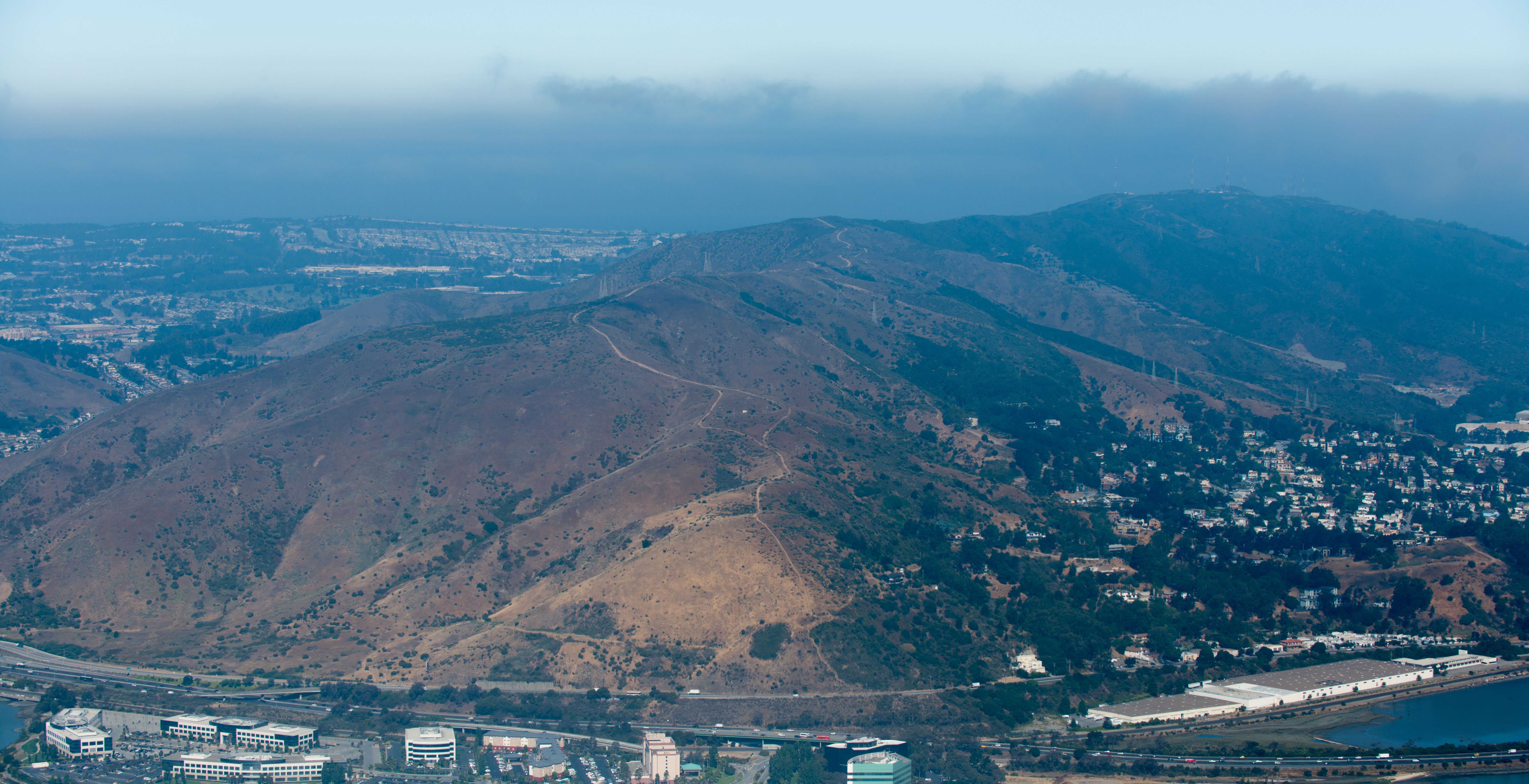 South San Francisco and Bayshore Fwy along bottom. Buildings on mountainside on the right are part of Brisbane. Radio towers and dirt roads can be seen across the mountain.